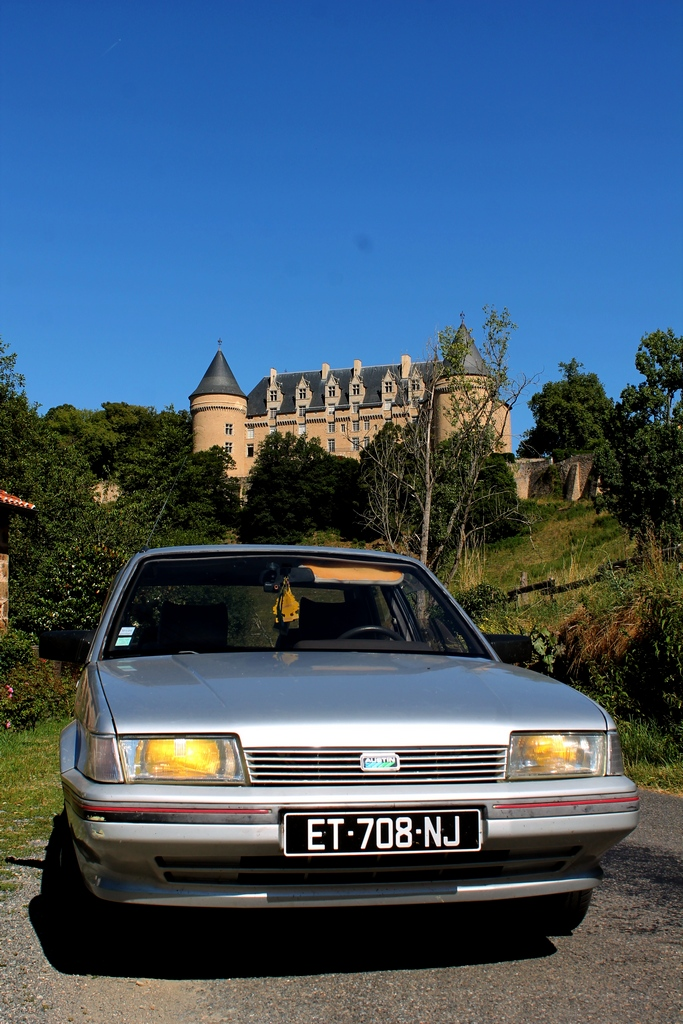 1987 French Marketed Austin Montego